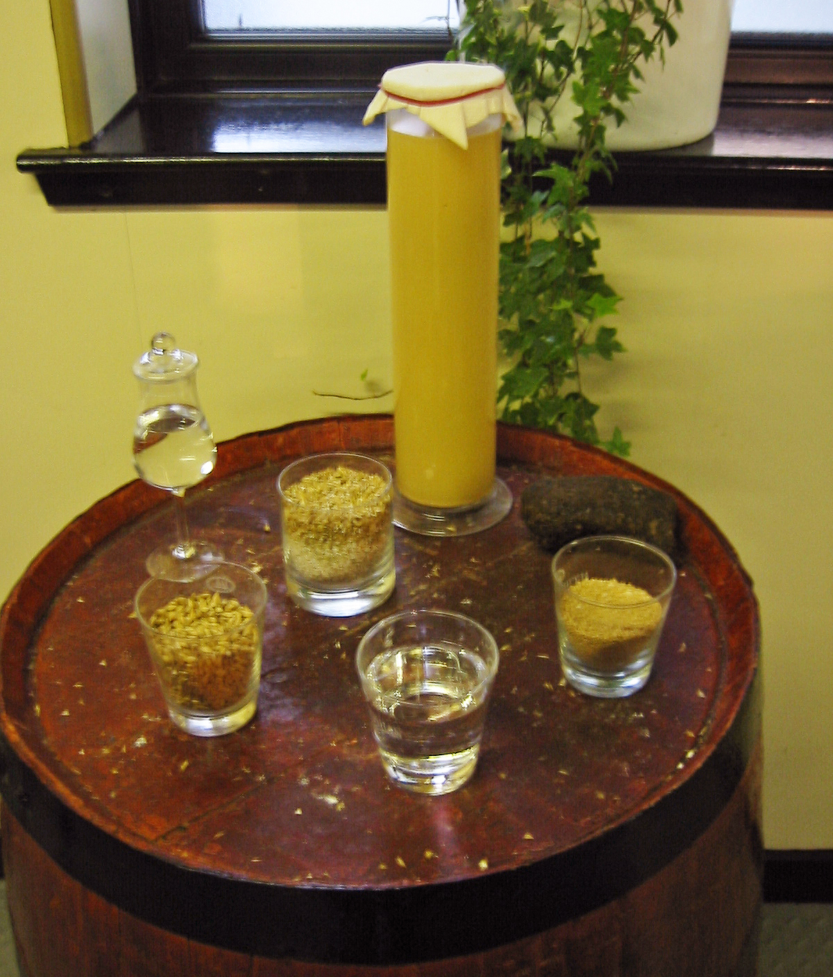 Ingredients of Auchentoshan, a triple-distilled, single malt, lowland Scotch whisky. taken by User:Nicor